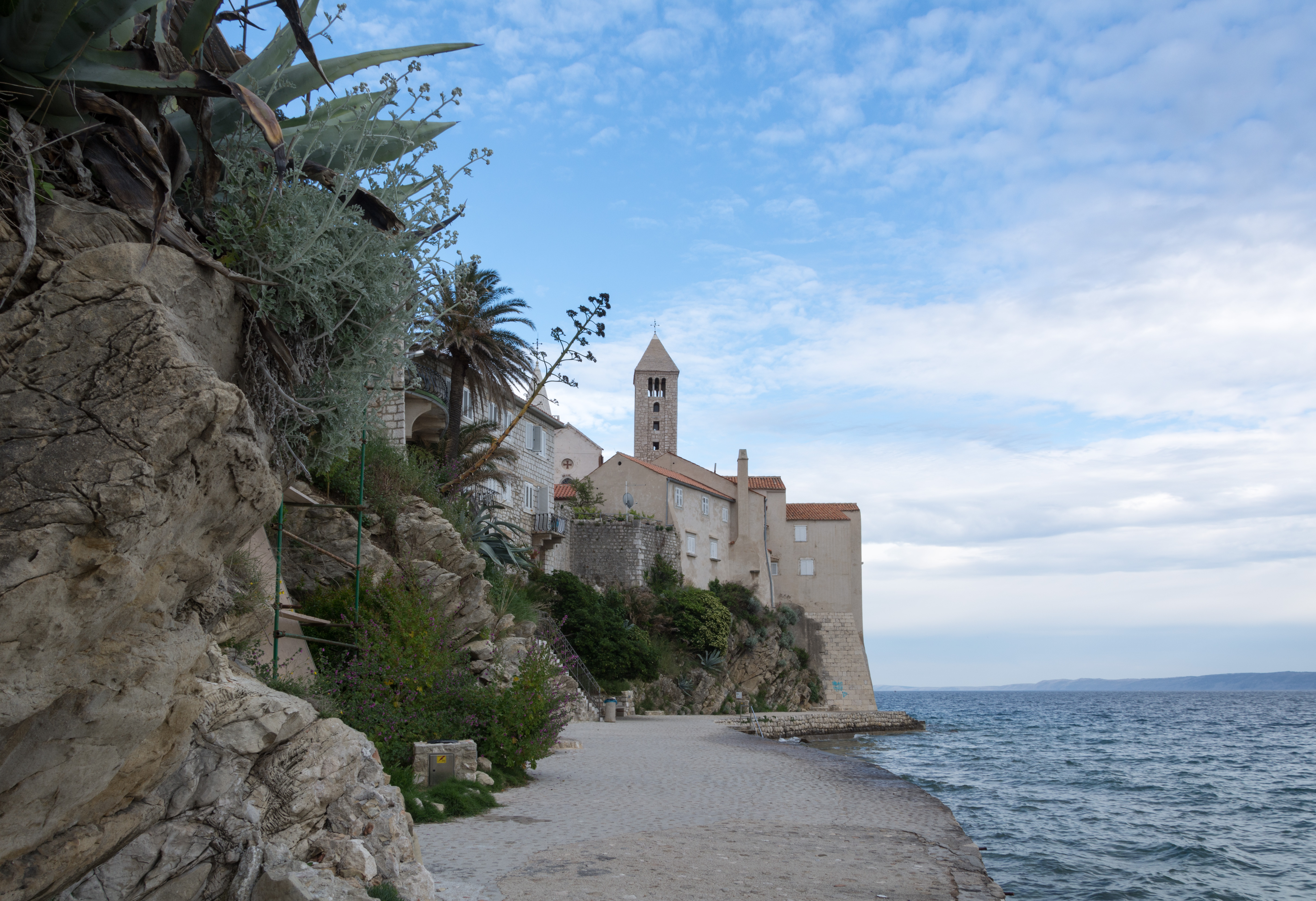 During a visit in 1910 Prinz Alois von Liechtenstein was so enthused about town and park Komrčar that he financed the construction of a seaside promenade.